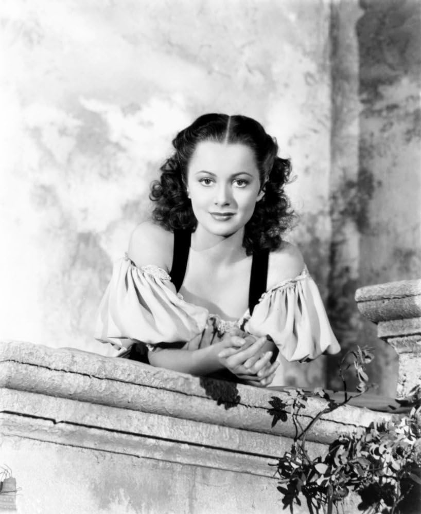 Photo of actress Olivia de Havilland. A search revealed that this was taken for Anthony Adverse (1936). A search for renewals was done in publications for the years 1963 and 1964. There were no listings for this magazine's title; there's no evidence of continuing copyright for the magazine.